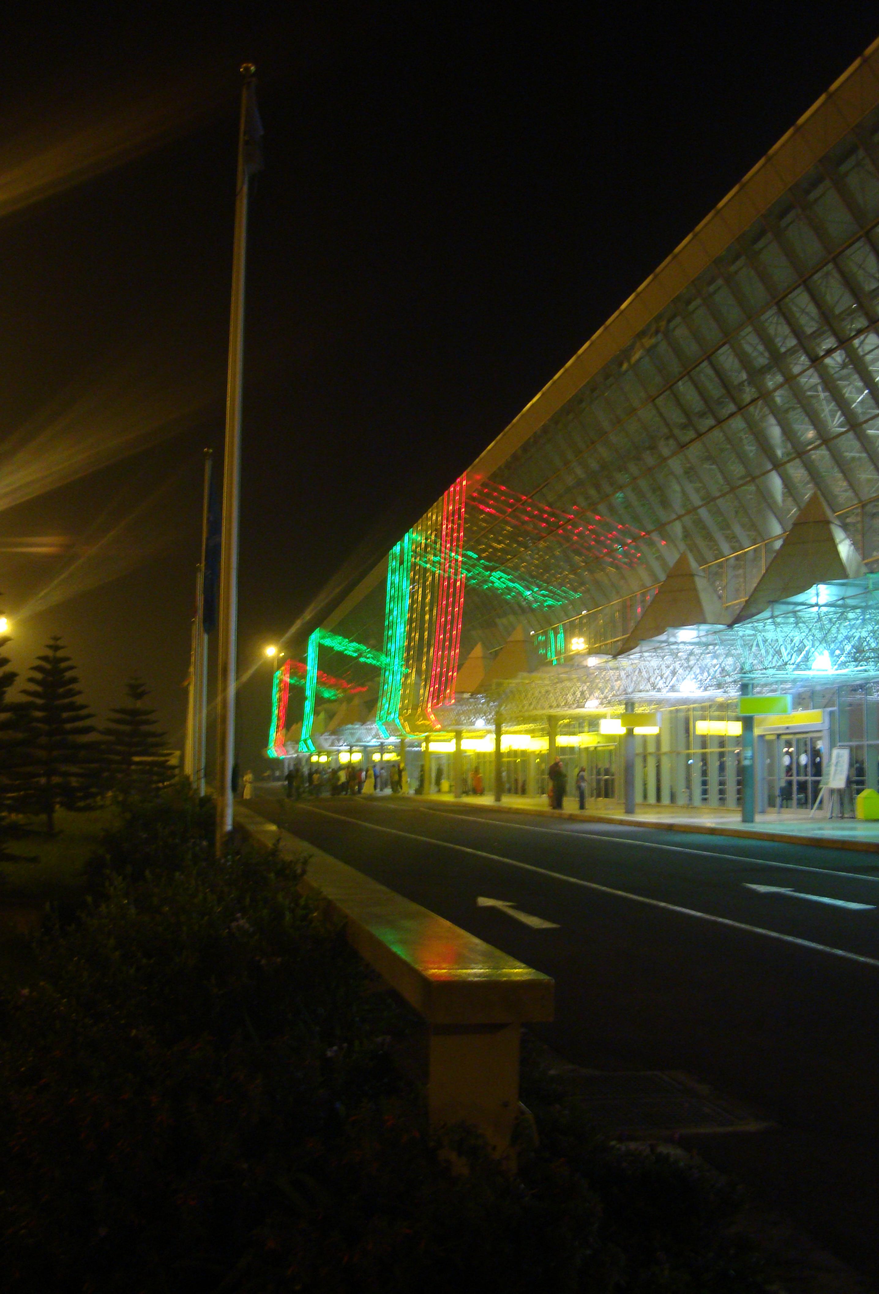 Bole international airport, Addis Abeba, Ethiopia